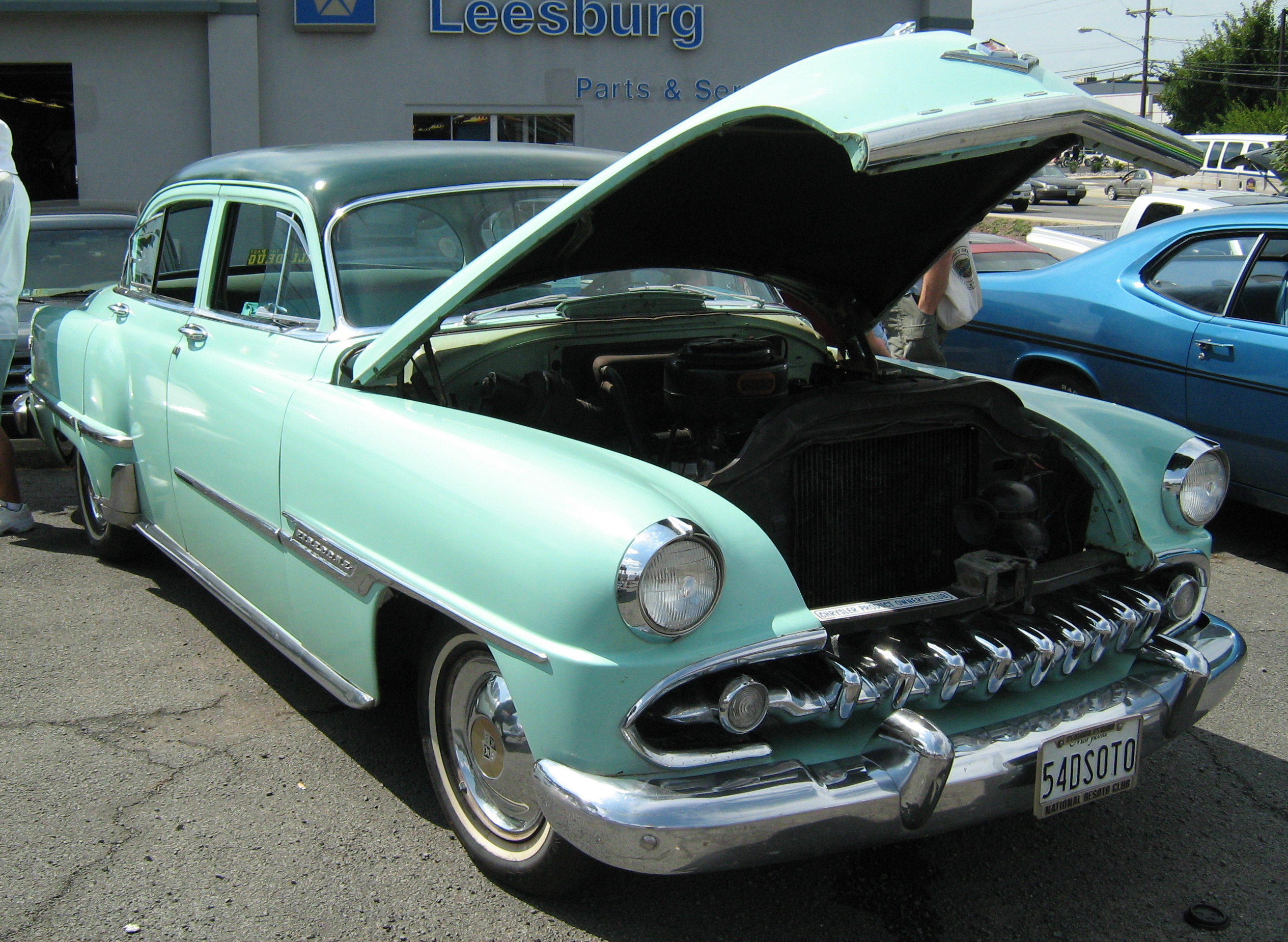 1954 DeSoto four-door sedan